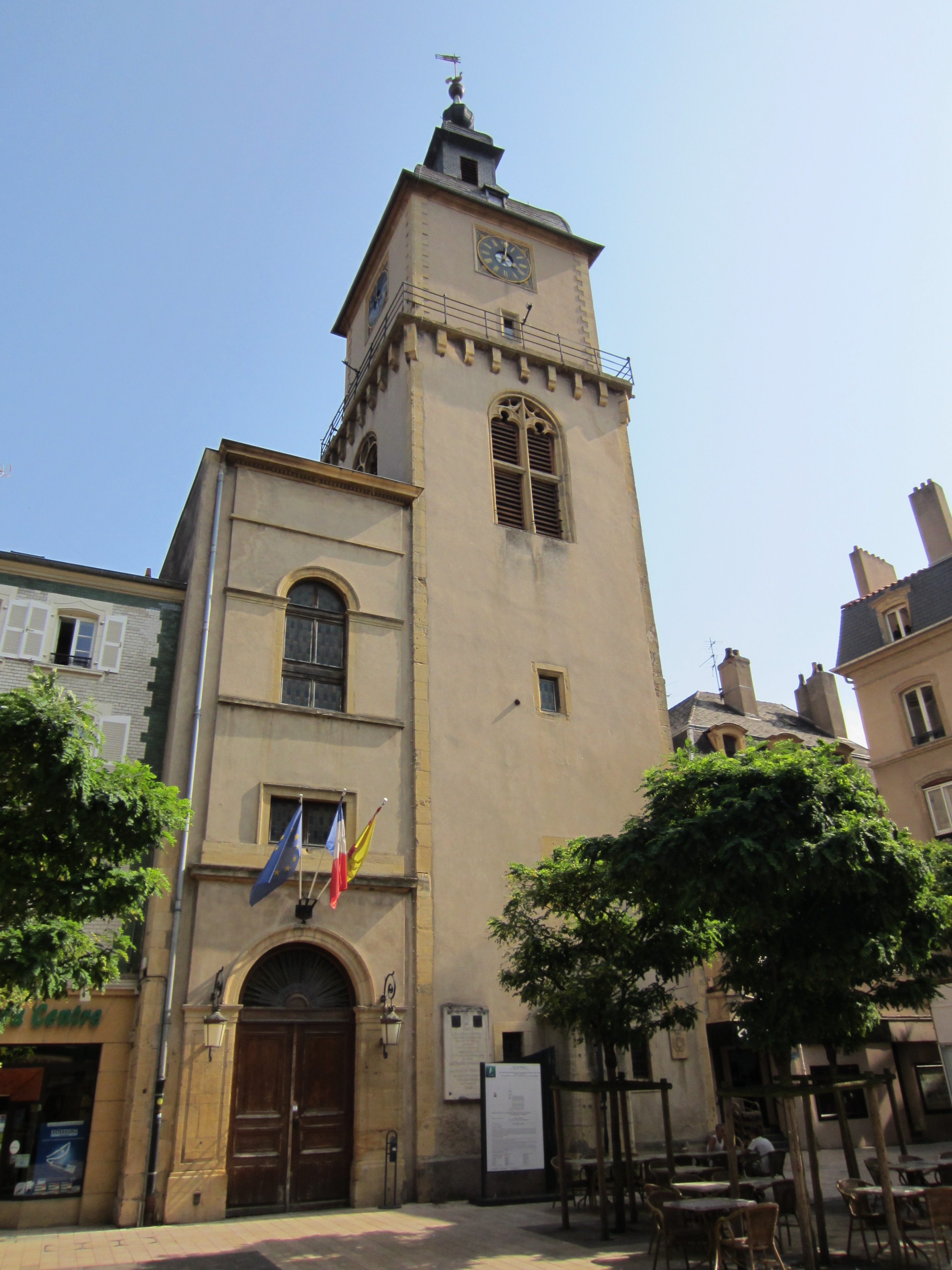 Description beffroi Thionville Date26 August 2011Sourcemon appareil photoAuthorAimelaimePermission (Reusing this file) beffroi Thionville